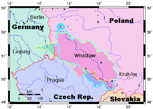 Prussian Silesia, 1871, outlined in yellow; (Austrian) Silesia before the annexion by Prussia in 1740, outlined in cyan. Map showing post-1994 state borders.